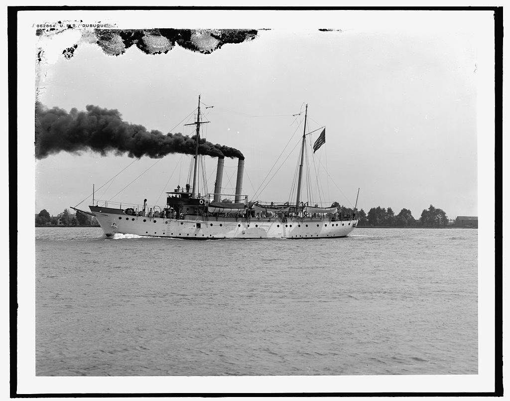 Photo of USS Dubuque